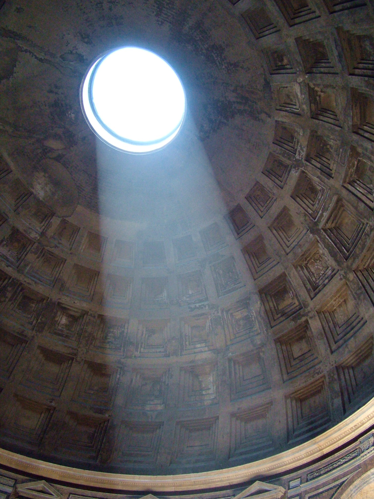 The Pantheon Oculus